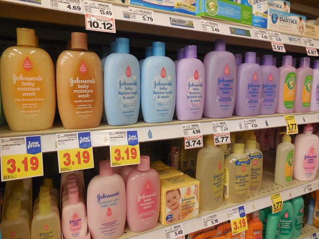 Johnson's Baby Product Shelves at Kroger